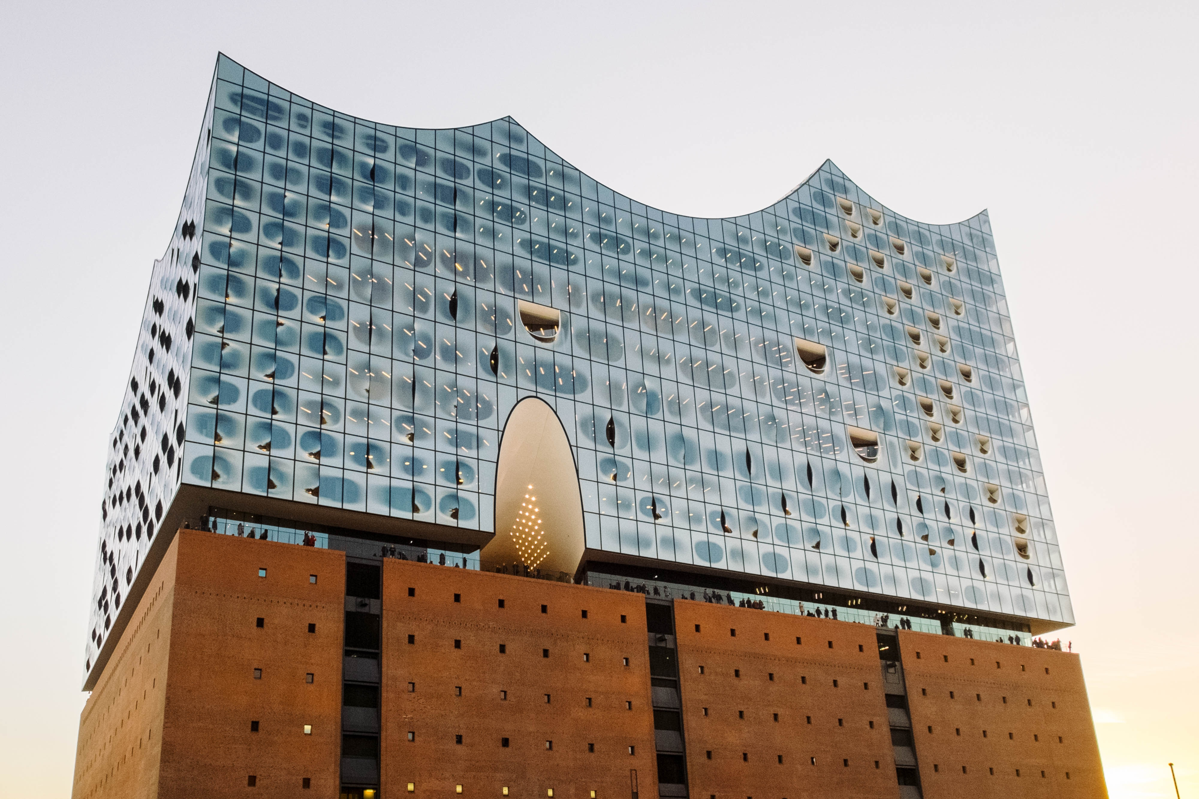 "Discovering the newly opened Plaza of the Elbphilharmonie in Hamburg."